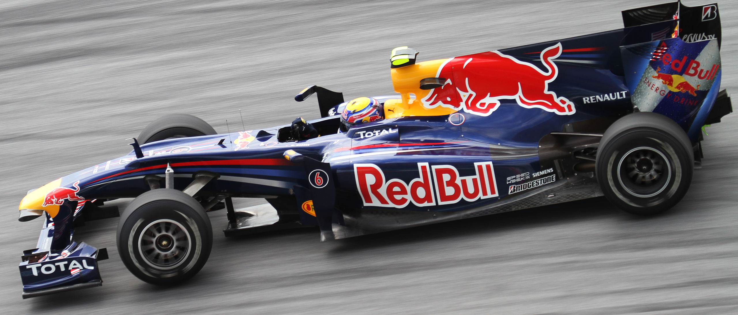 Formula One 2010 Rd.3 Malaysian GP: Mark Webber (Red Bull) during Friday 1st Free Practice session.